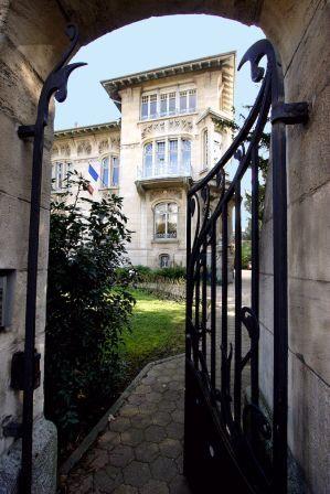 author: CABRERA BLÁZQUEZ, Francisco Javier